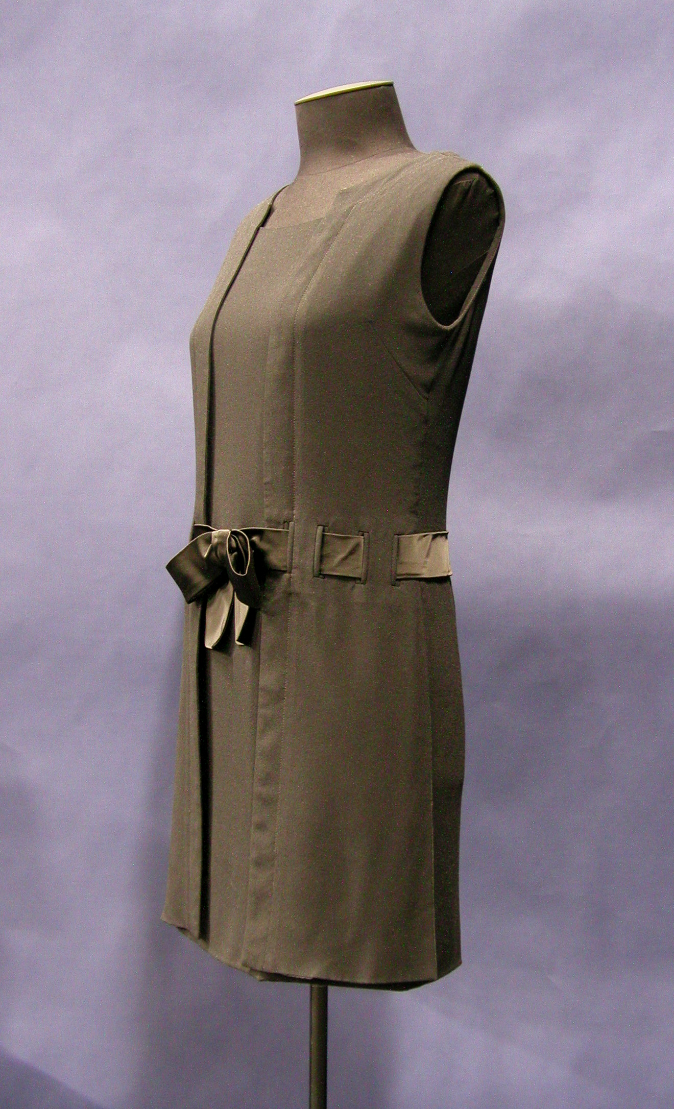 Dress, cocktail, straight, sleeveless, knee-length, black wool crepe with two vertical flap extensions to centre front, wide black silk ribbon trim `threaded' at hipline terminates in a bow cocktail dress Emma Celia Knuckey (born Auckland, 1913) Auckland, New Zealand, mid 1960s silk makers label ‘Emma Knuckey - MADE IN AUCKLAND - NEW ZEALAND’ length of back 830 mm